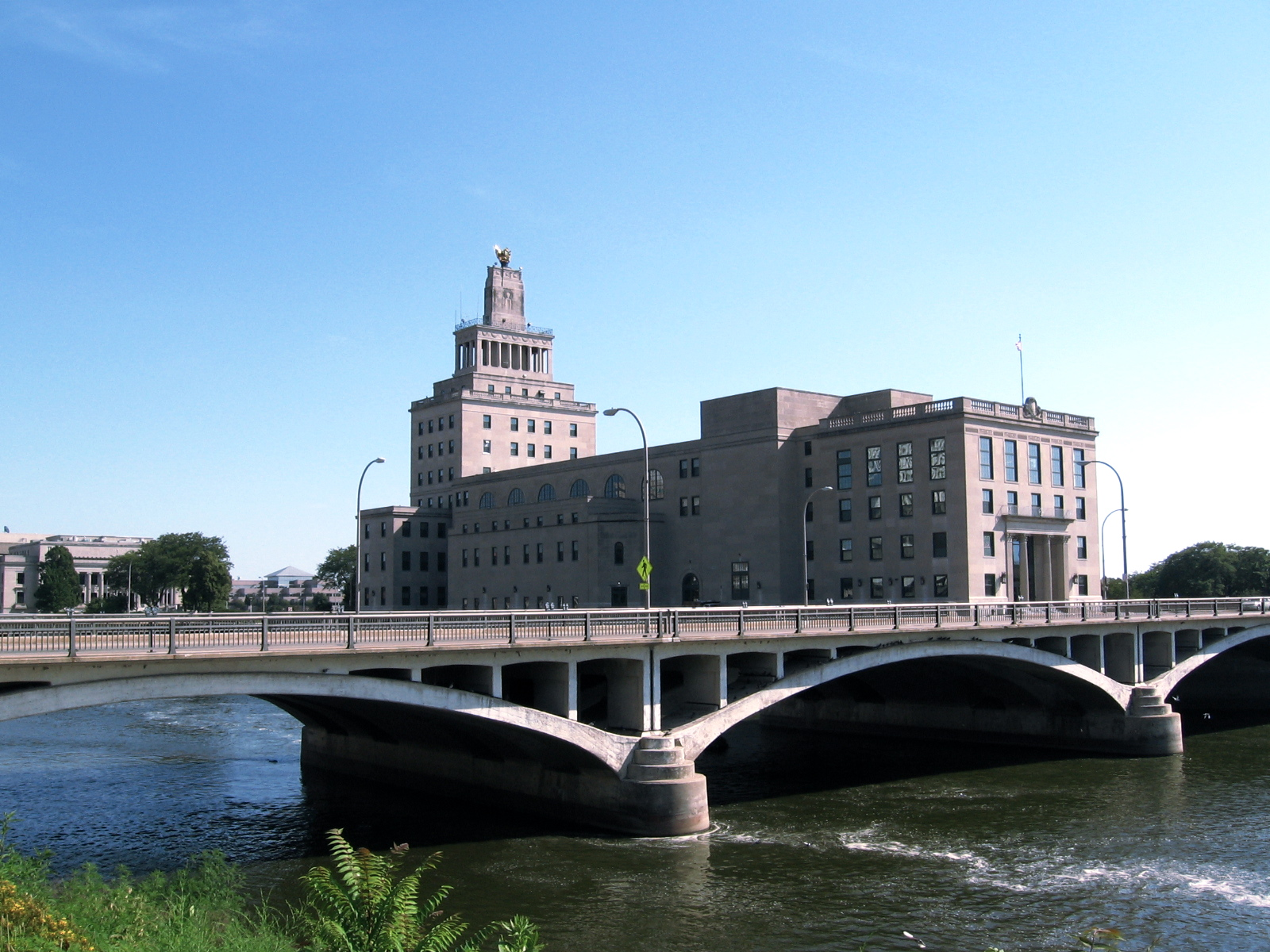 View from the south bank looking north at Mays Island where Cedar Rapids City Hall and Linn County Courthouse are located.